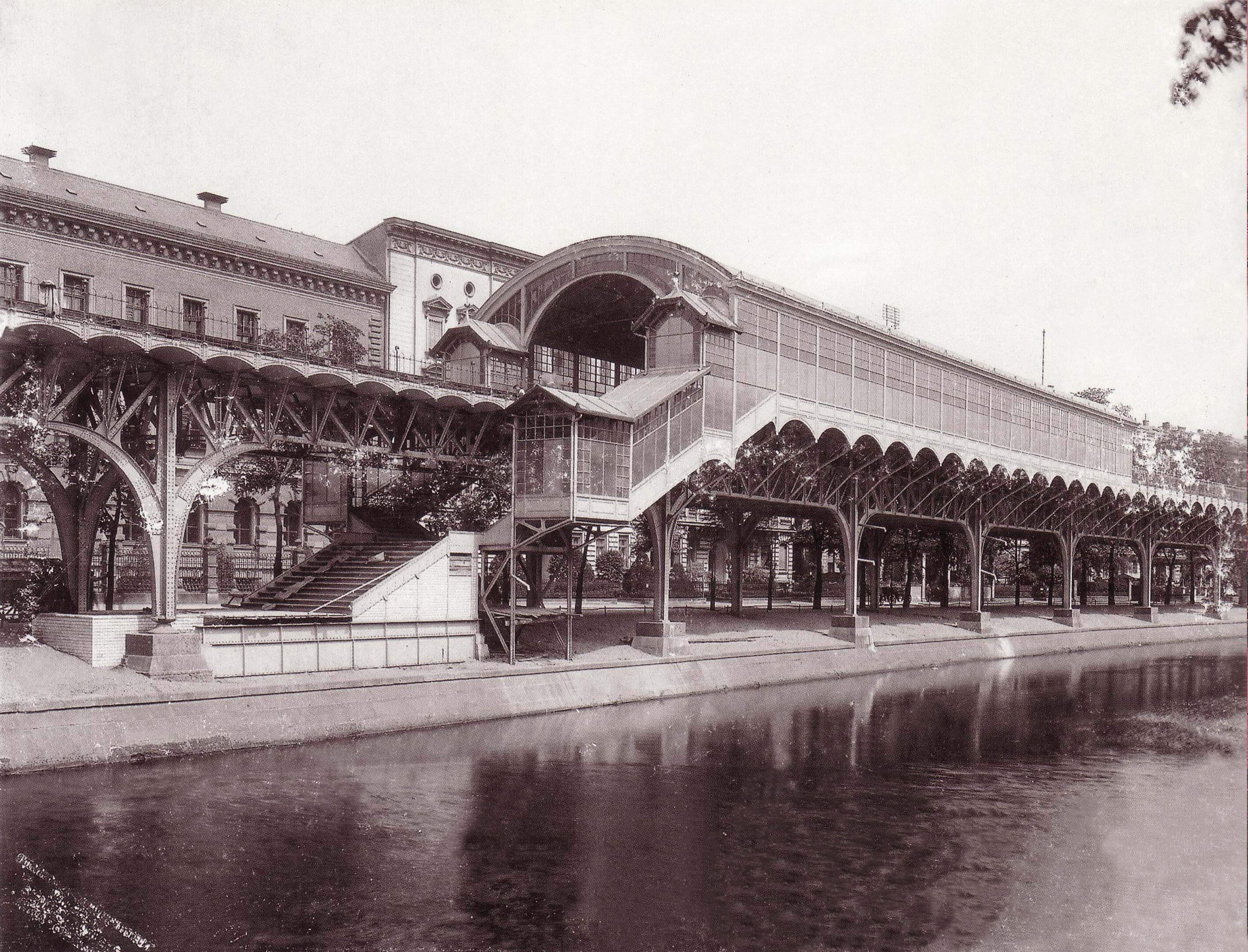 the Berlin elevated U-Bahn station Möckernbrücke